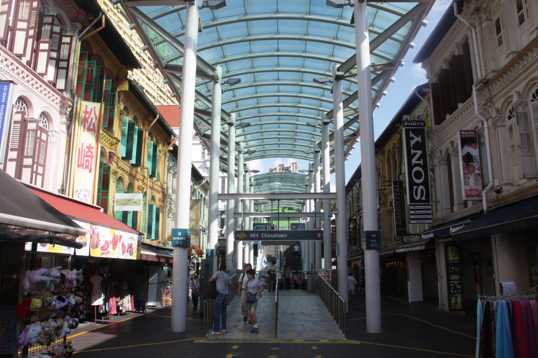 Chinatown MRT Station Exit Pagoda St